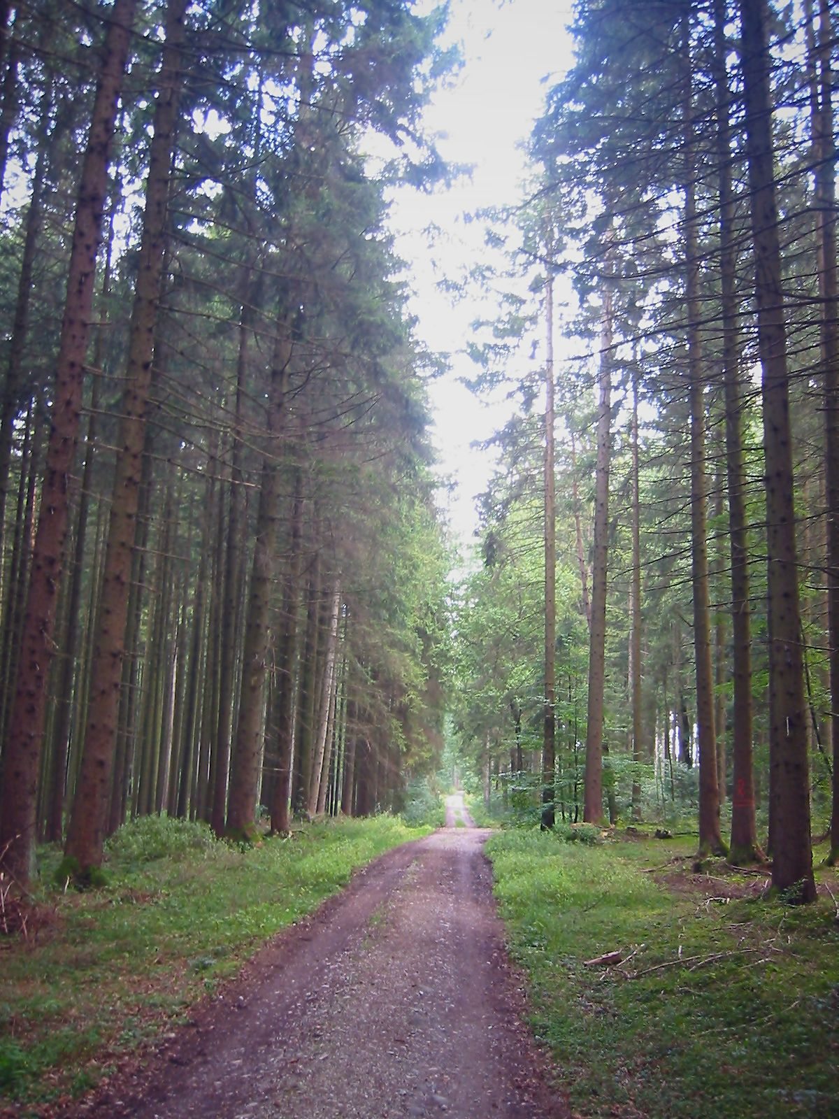 forest path in Hofoldinger Forst 25 km south of Munich